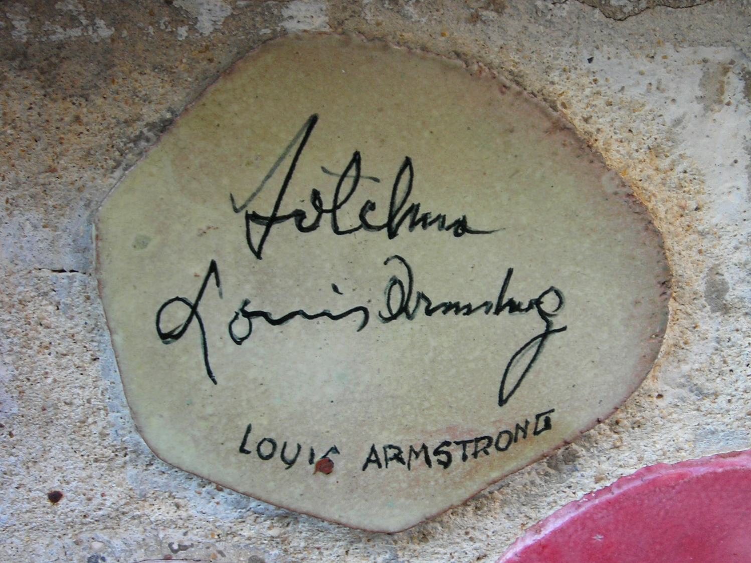 Signature of the musician Louis Armstrong on a Piastrella del Muretto di Alassio' (Tile of the wall of Alassio).